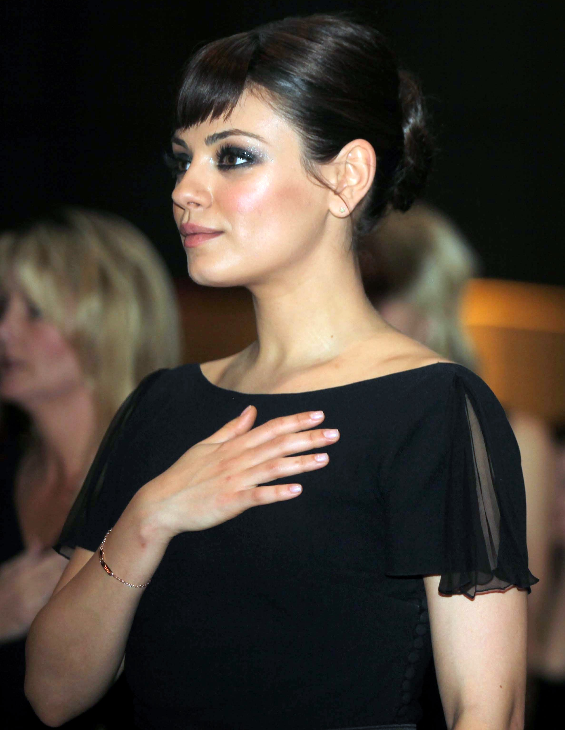 Mila Kunis attend the 236th Marine Corps birthday ball for 3rd Battalion in 2011.